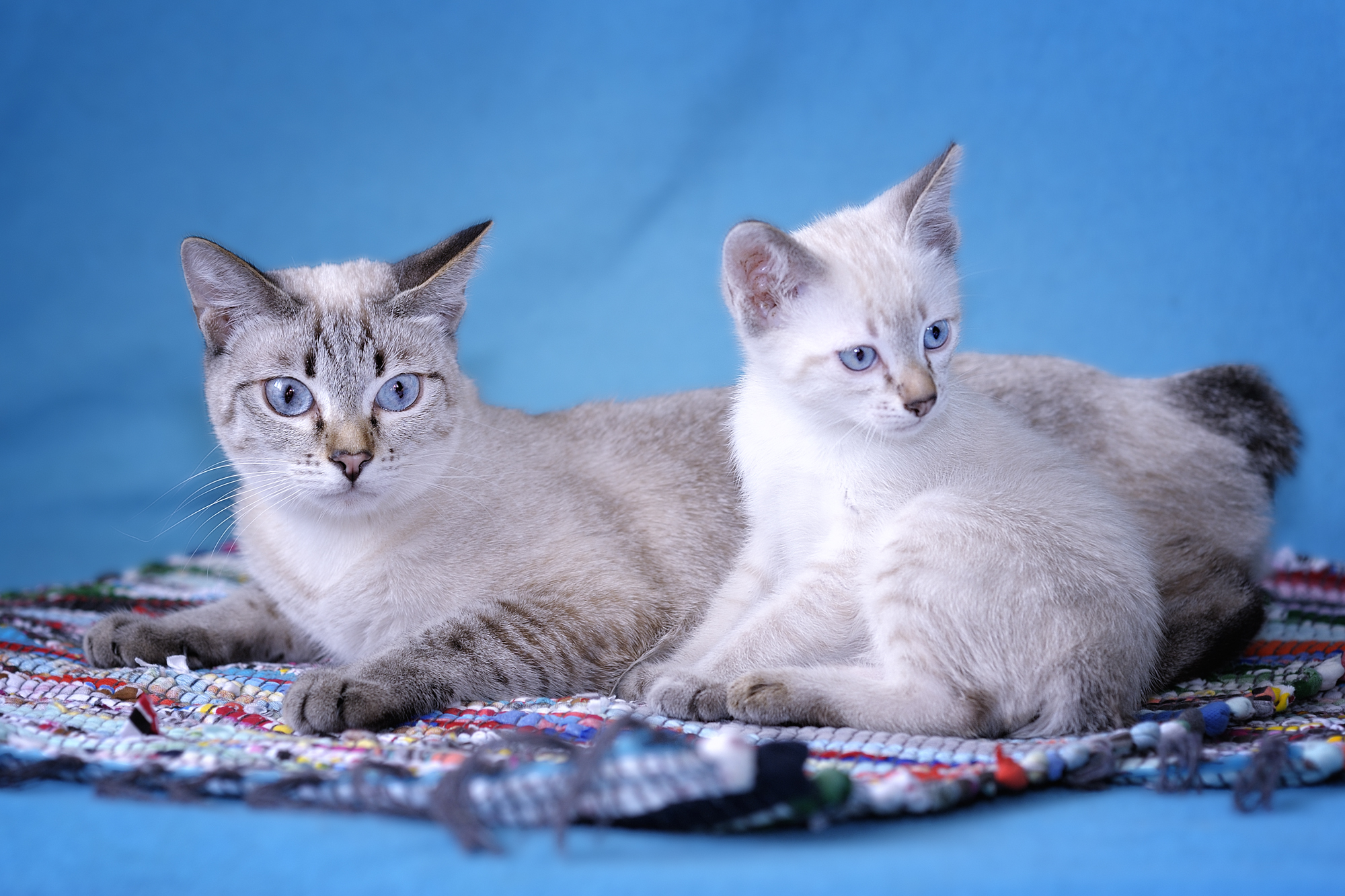 Rare MEKONG BOBTAIL of lynx-point colour - Dona Miya Ayutthaya, Cofein Pride cattery